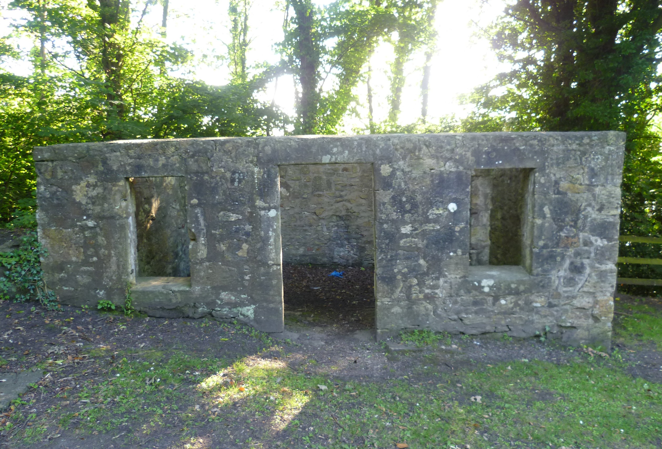 All that is left of a building with a legitimate claim to being the birthplace of Britain's Industrial Revolution, or at least the effective use of steam power in working the machinery that made it possible. It was here that Watt made his revolutionary improvements to the Newcomen steam engine which he had observed to be relatively inefficient.